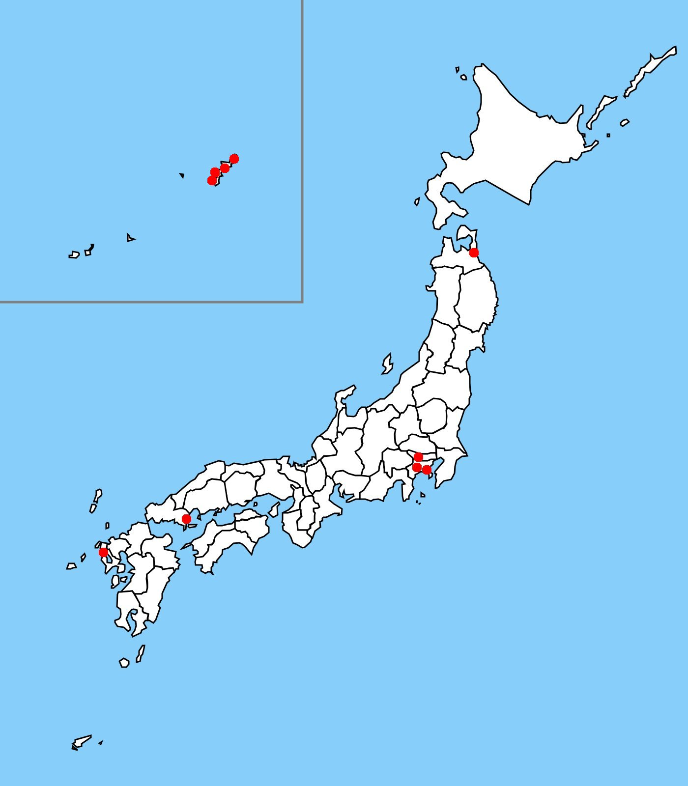 US Military bases in Japan, see also Image:US Military bases in Okinawa.jpg